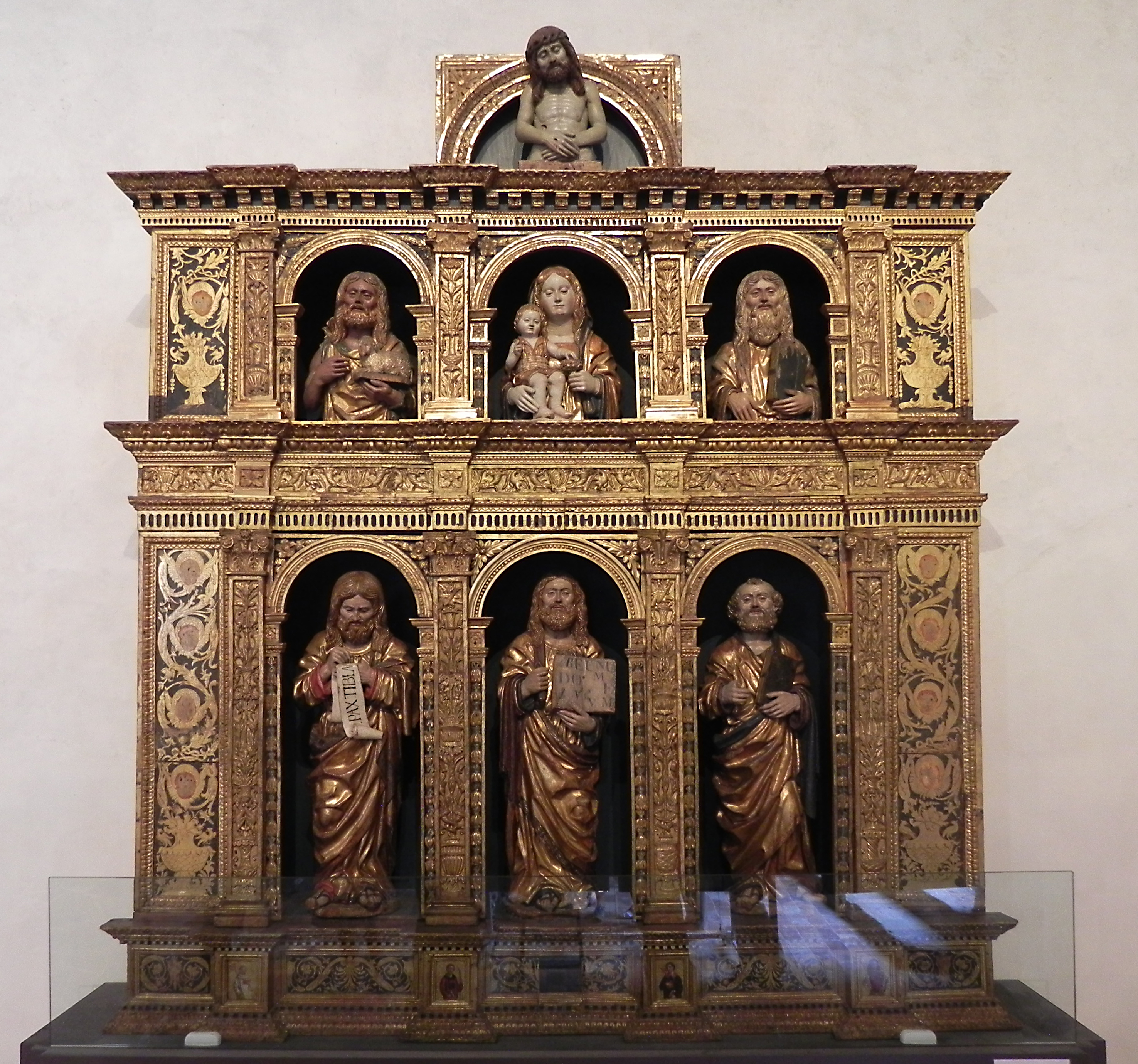 "Polyptych of St. Bartholomew" Polychrome wood and gilded, 1495/96, Church of St. Bartholomew - Albino (BG) In the lowerfrom left, St. Mark, St. Bartholomew and St. Peter In the upper rangefrom left, St. John the Baptist, Madonna and Child, St. Andrew Over the upper half-body of the dead Christ Sculptures and wooden frame made by Peter Bussolo Gilding and colors made by Giovanni Marinoni and the sons Antonio and Bernardino Dimensions: 285 x 300cm frame - Statues approximately 105cm - half-length statue 55cm